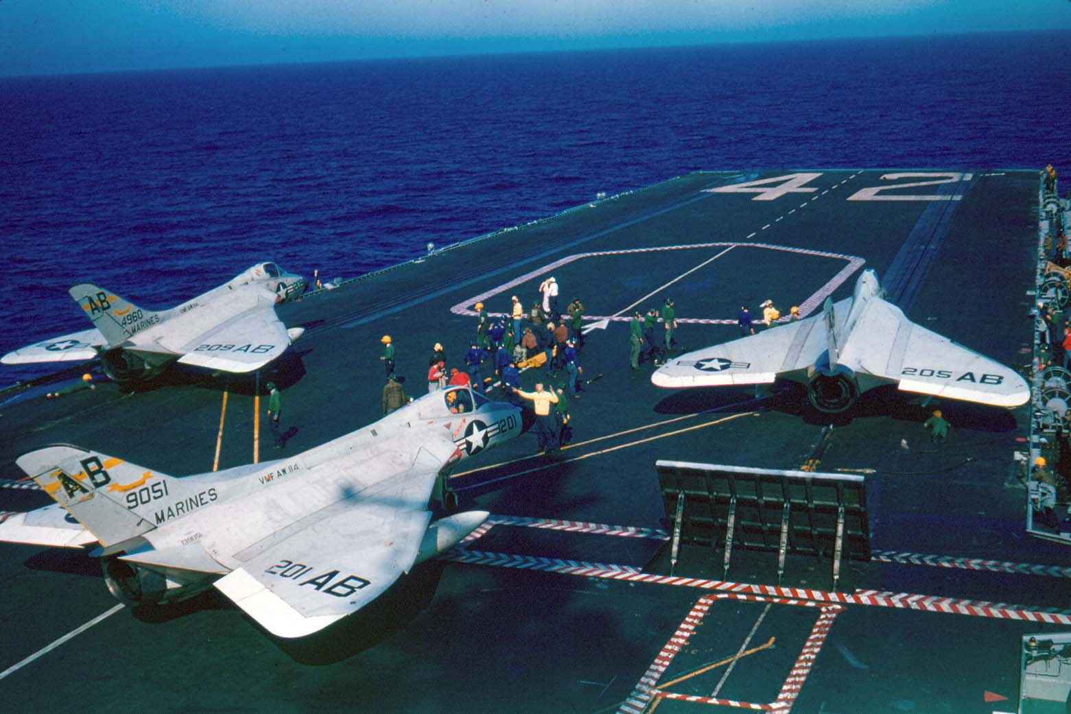 Three U.S. Marine Corps Douglas F4D-1 Skyray fighters of Marine all-weather fighter squadron VMF(AW)-114 Death Dealers on the catapults of the aircraft carrier USS Franklin D. Roosevelt (CVA-42), in 1959. VMF(AW)-114 was assigned to Carrier Air Group 1 (CVG-1) aboard the FDR for a deployment to the Mediterranean Sea from 13 February to 1 September 1959.